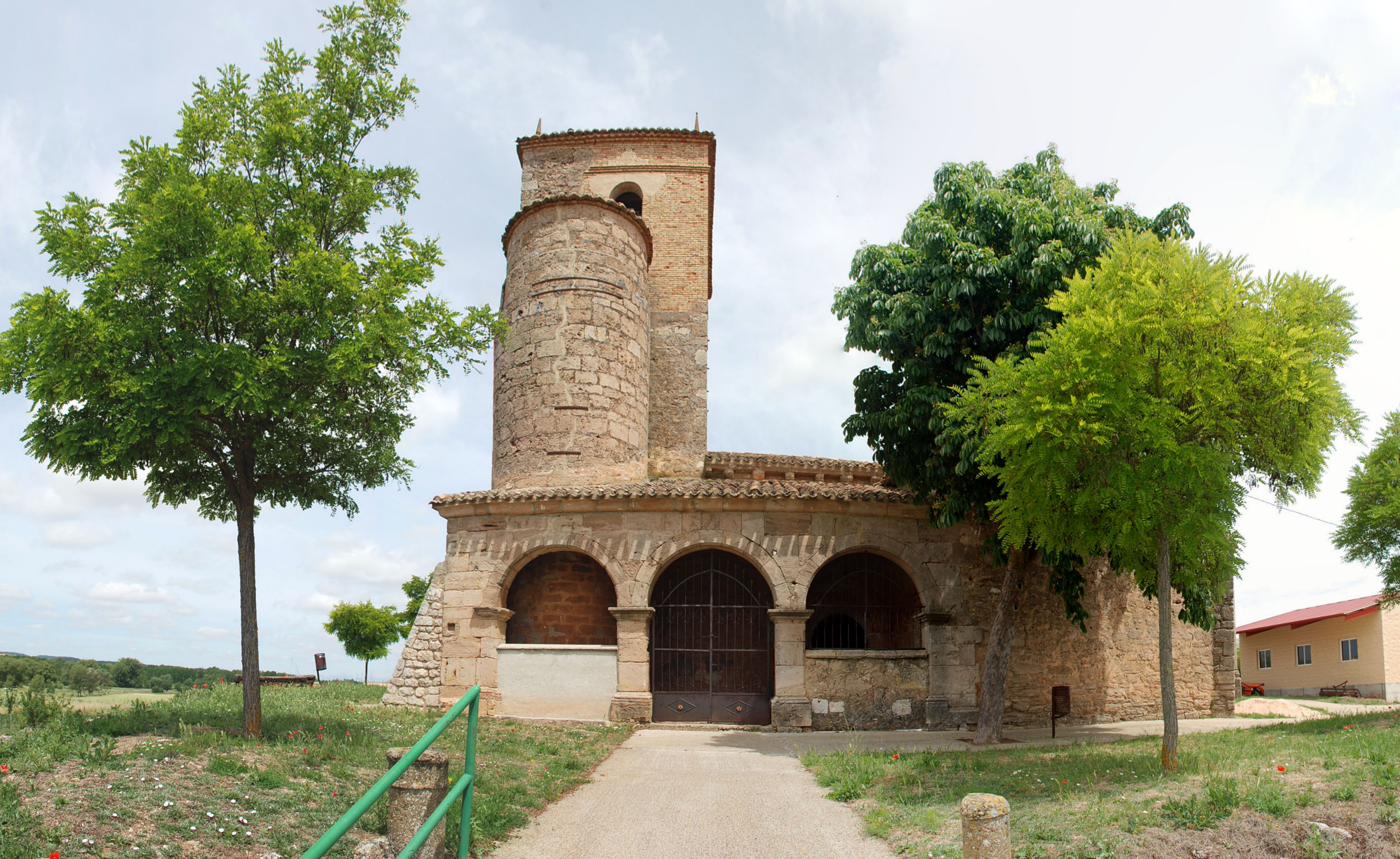 Church of Saint Bartholomew in Castrillo de Riopisuerga (Province of Burgos, Castile and León)